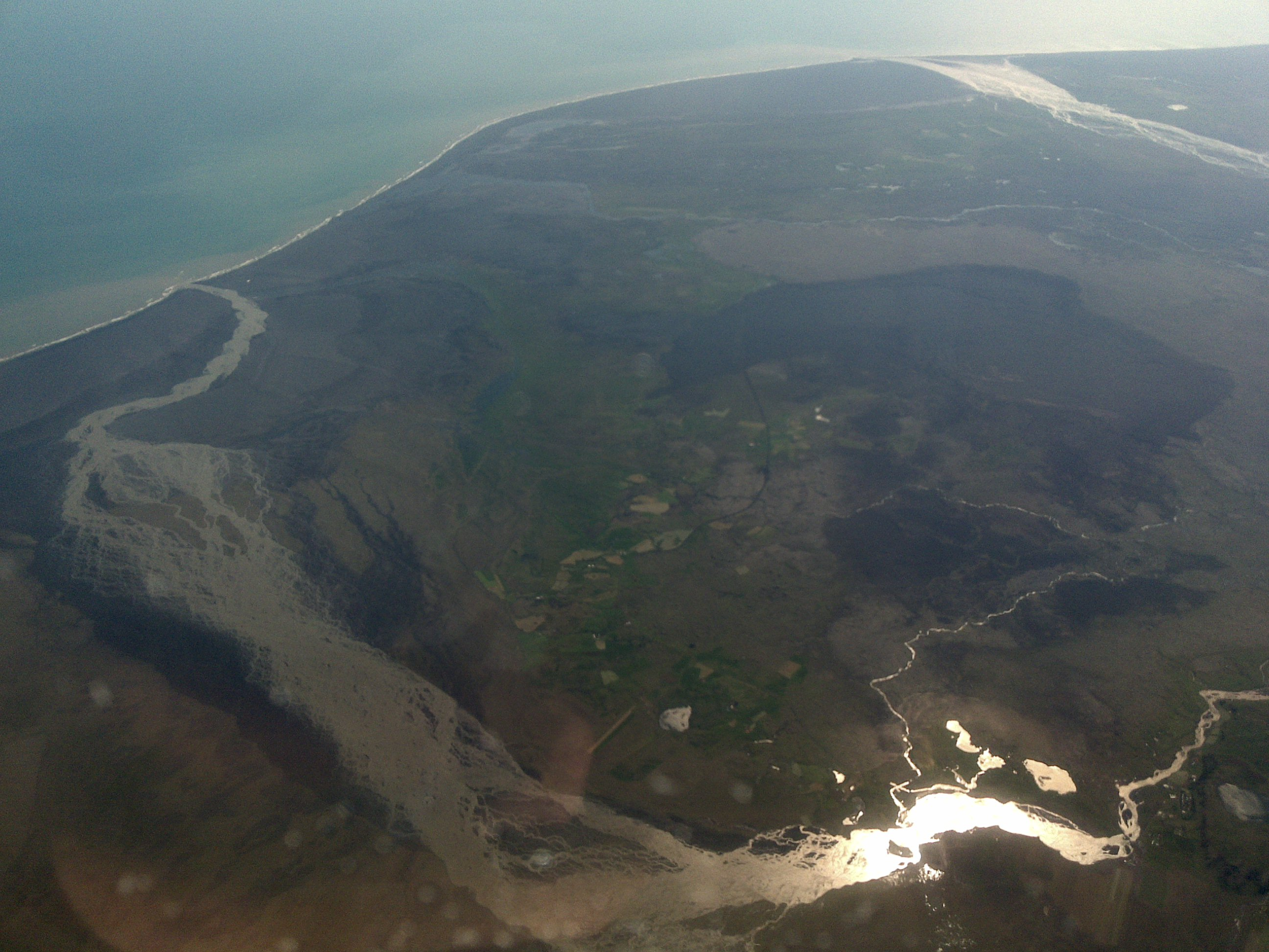 Delta of glacial river Skafla, southern Iceland. The flat, glacial deltaland is called Landbrot (front, left) and Eldhraun (center, right).